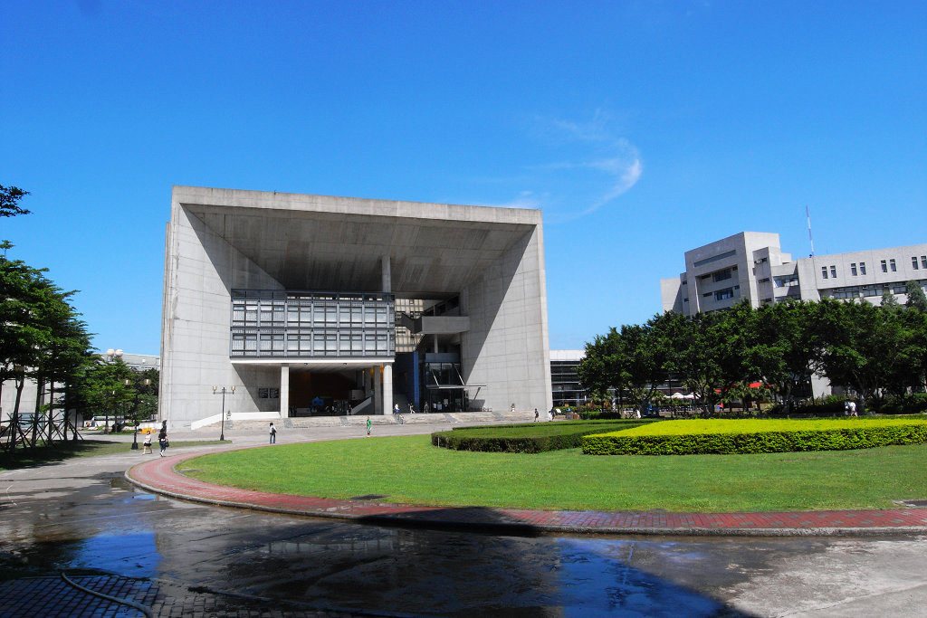 Yuan Ze University 5th Building